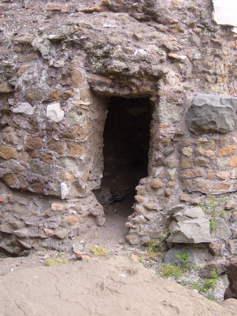 Taken by myself - Lylum 18:20, 20 June 2006 (UTC)